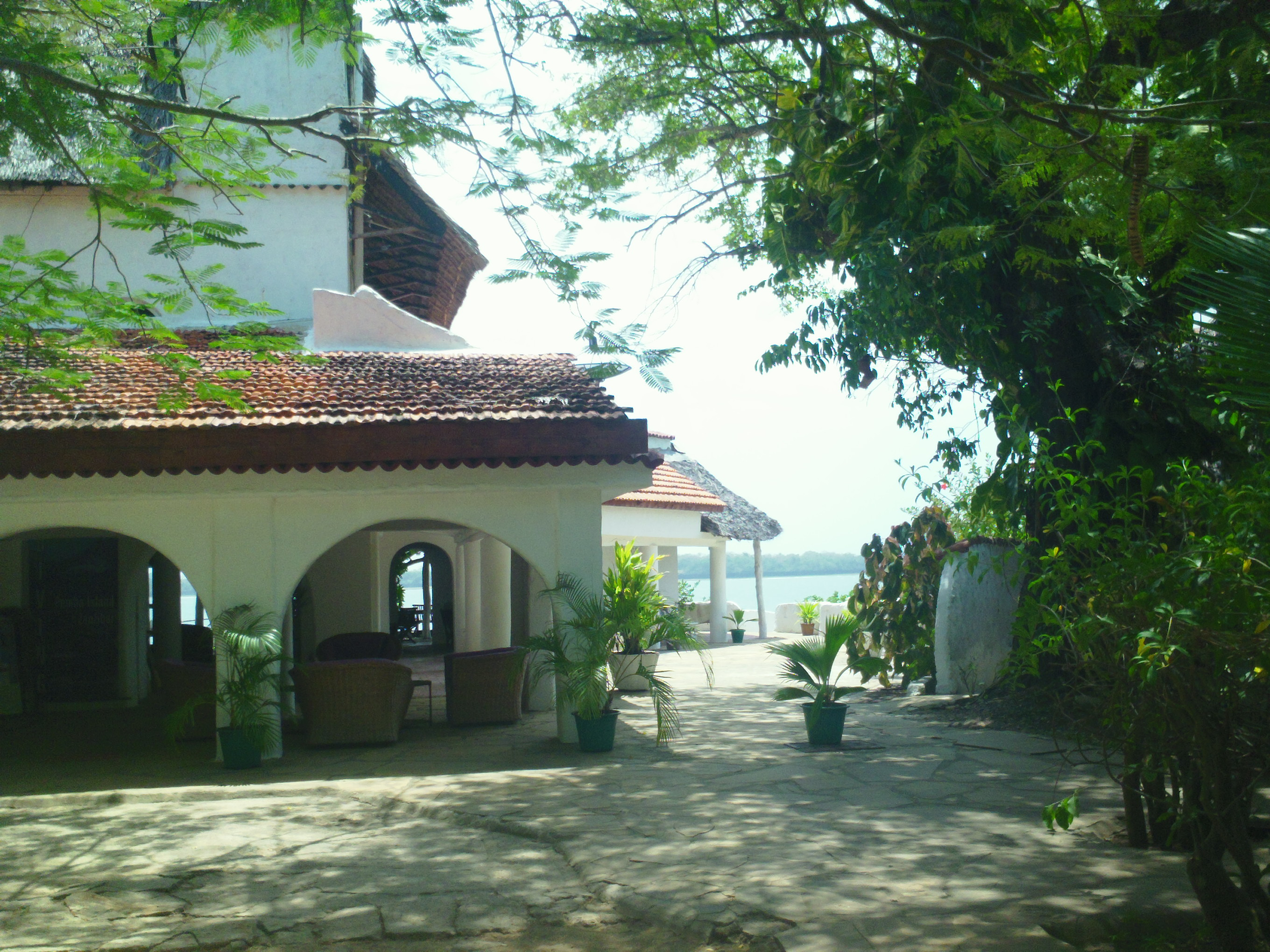 The Reef Hotel in Shimoni, Kenya